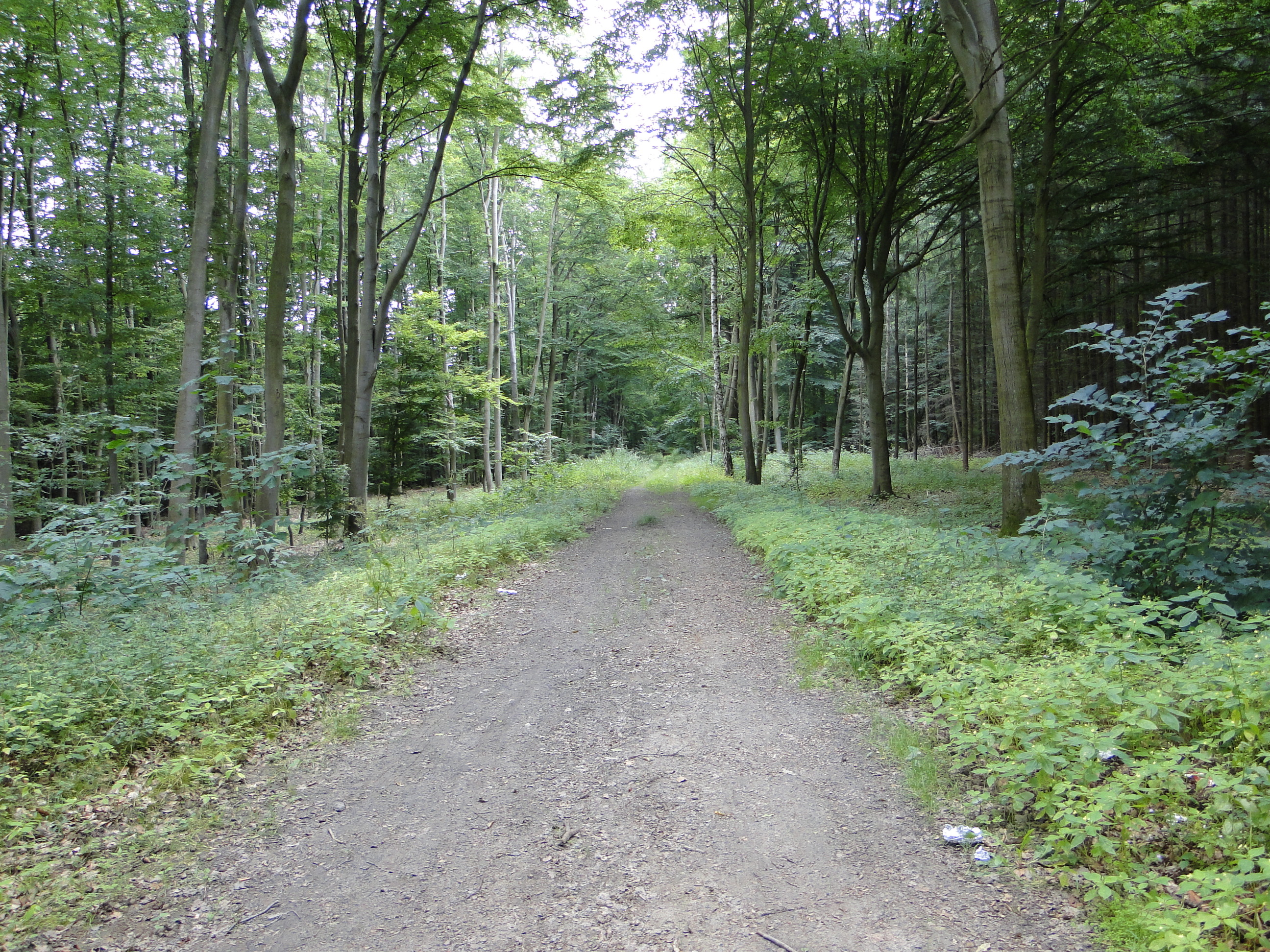 Former railway line Parchim-Suckow in Parchim, district Parchim, Mecklenburg-Vorpommern, Germany